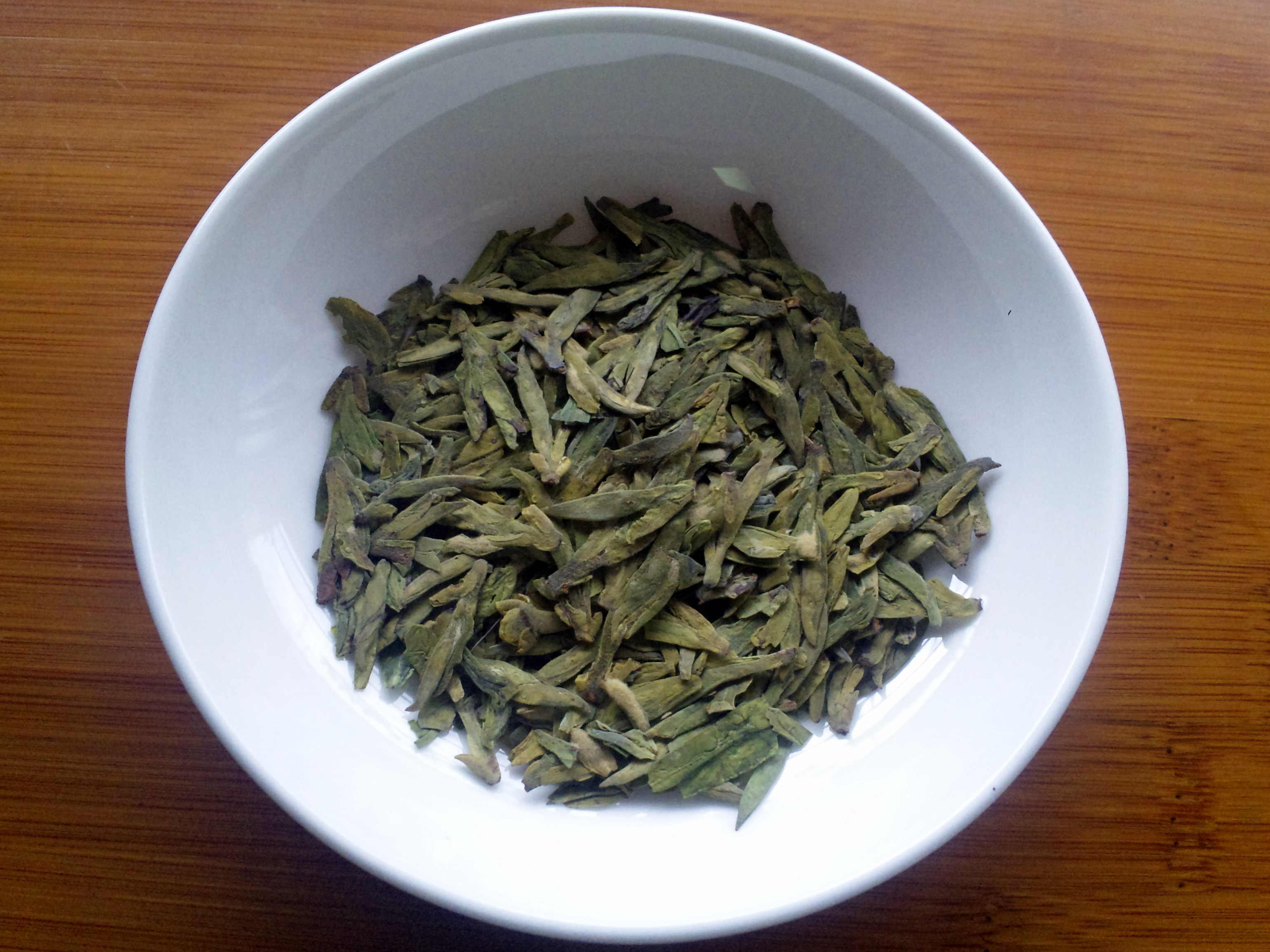 Xi Hu Longjing Tea